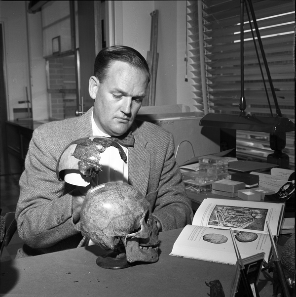 State Vertebrate Paleontologist Stanley J. Olsen with skulls in Tallahassee.